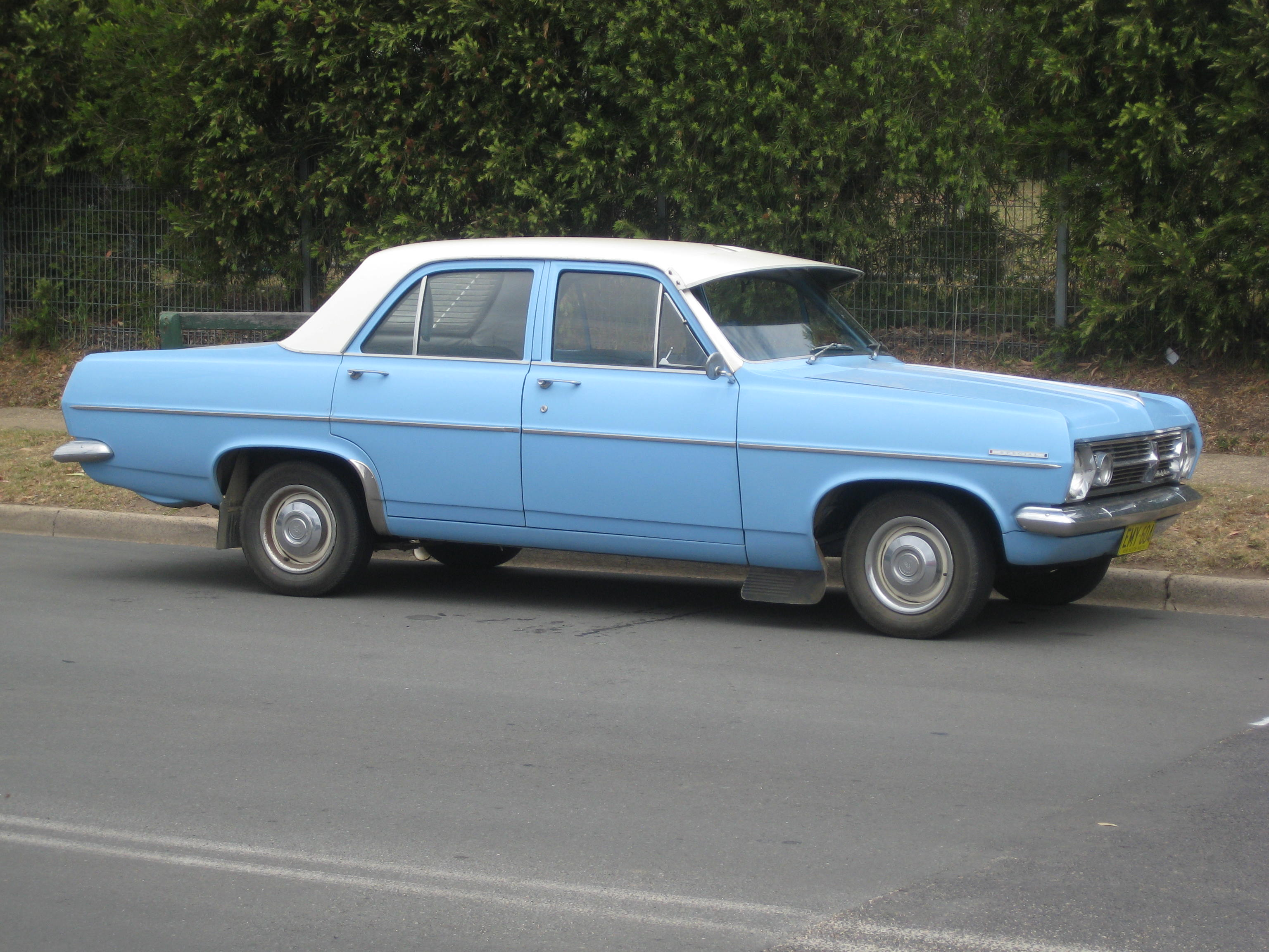 Holden HR Special